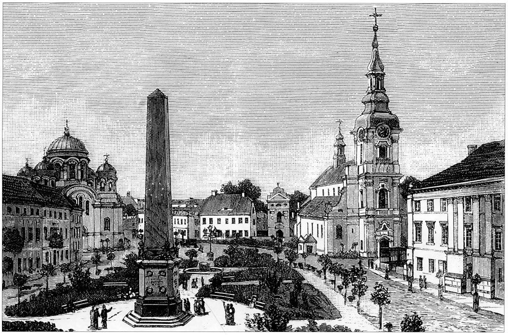 Main square in Kalisz. Engraving made shortly after completion of the orthodox church (on the left) in 1877